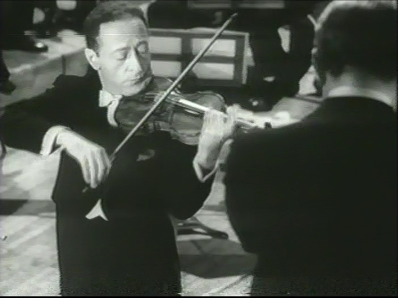 Jascha Heifetz from "Carnegie Hall".